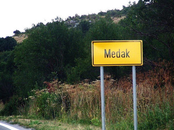 A sign at the entrance to the village Medak, Croatia